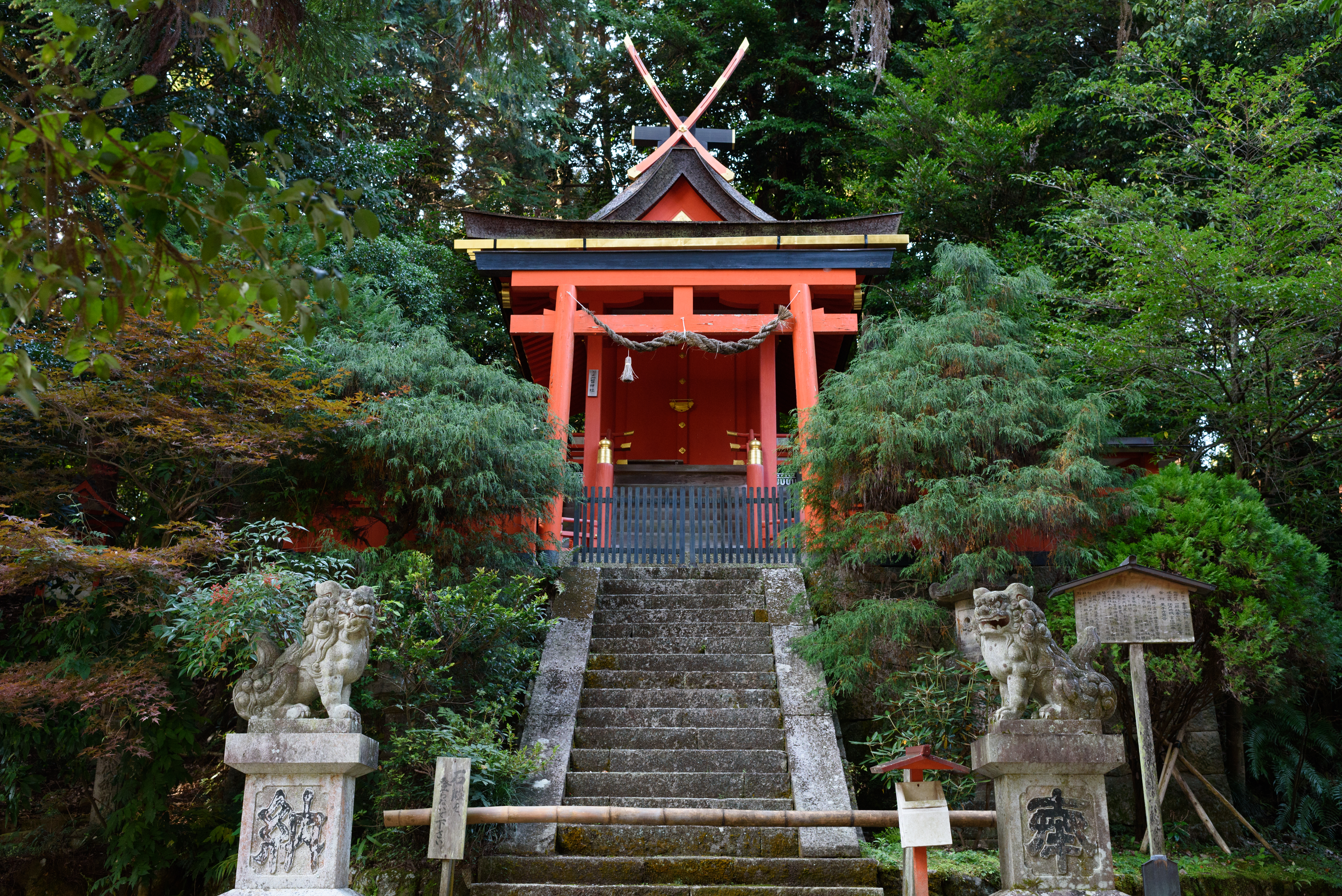 Tateiwa shrine, in Yagyu-Yamaguchi shrine, in Nara, Nara Prefecture, Japan